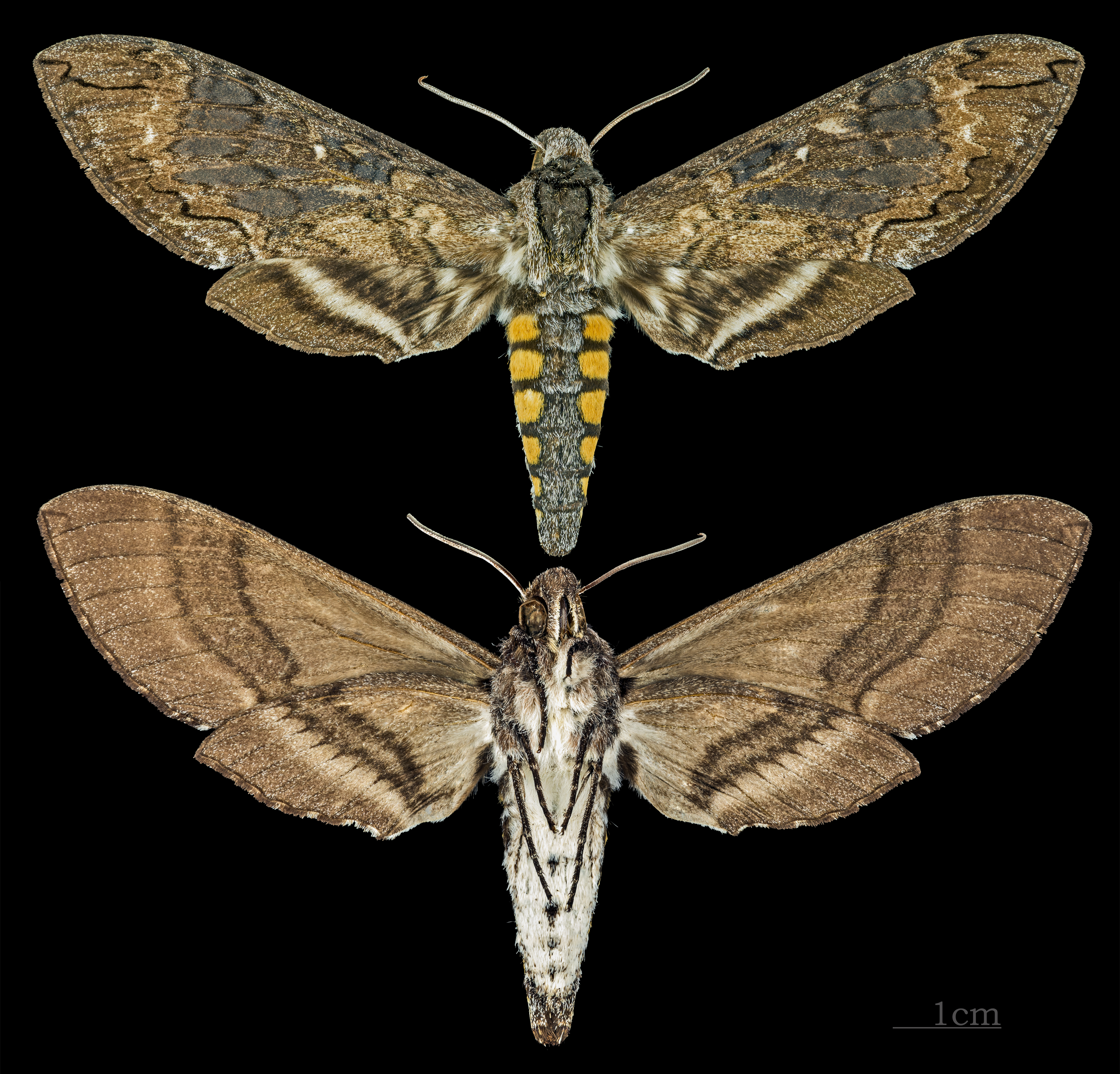 Manduca lucetius - Two views of same specimen Collection of the Mathematician Laurent Schwartz